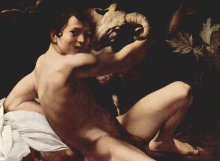 A depiction of John the Baptist, the cousin of Jesus whose calling was to prepare the way for the coming of the Messiah. The painting is also known as Youth with a Ram, and there is another version in the Capitoline Museums in Rome.